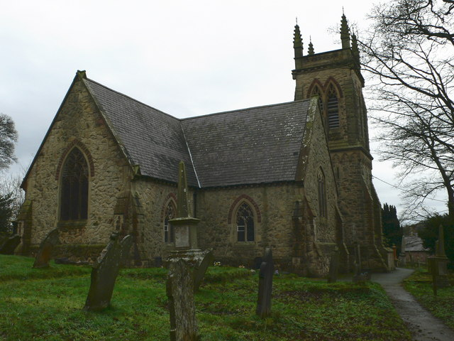 St Mary's church, Minera According to an engraving on the church step, this church is 838 ft and 4 ins above sea level. The parish of Minera was created on 23 May 1844, from the townships of Minera and Esclusham Above, which until then had been in the parish of Wrexham. It is believed that there was a chapel of ease (to Wrexham) on the present site as early as 1577. Minera became a parish in its own right in 1844. The original Chapel was probably constructed of wood. It was reconstructed between 1728 and 1733. It was demolished in 1864, and a new Church was built in 1865, preserving the shape and interior of the old building. The new Church was opened in September 1866.